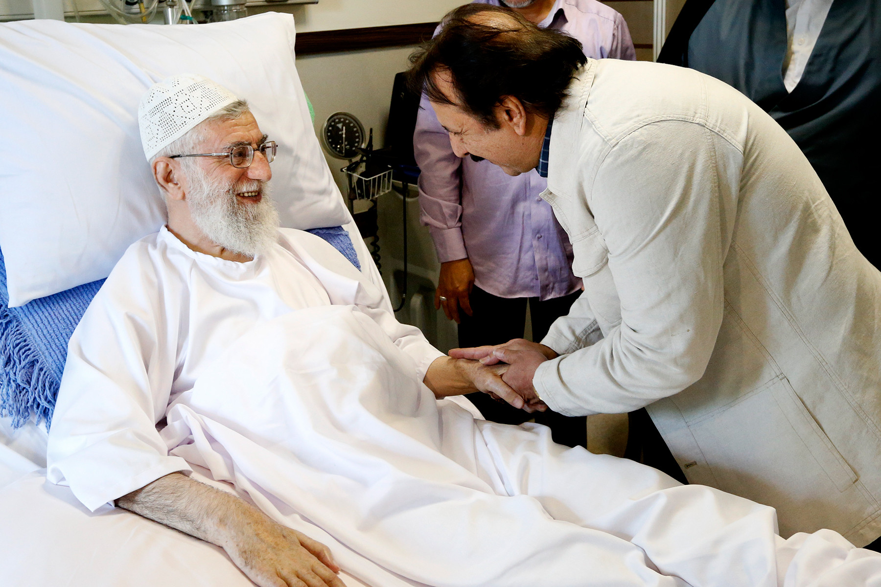 Artists and writers visiting Ali Khamenei in hospital